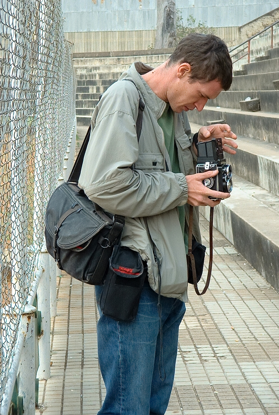 Tim Hetherington at a photo session in Huambo, Angola in 2002.